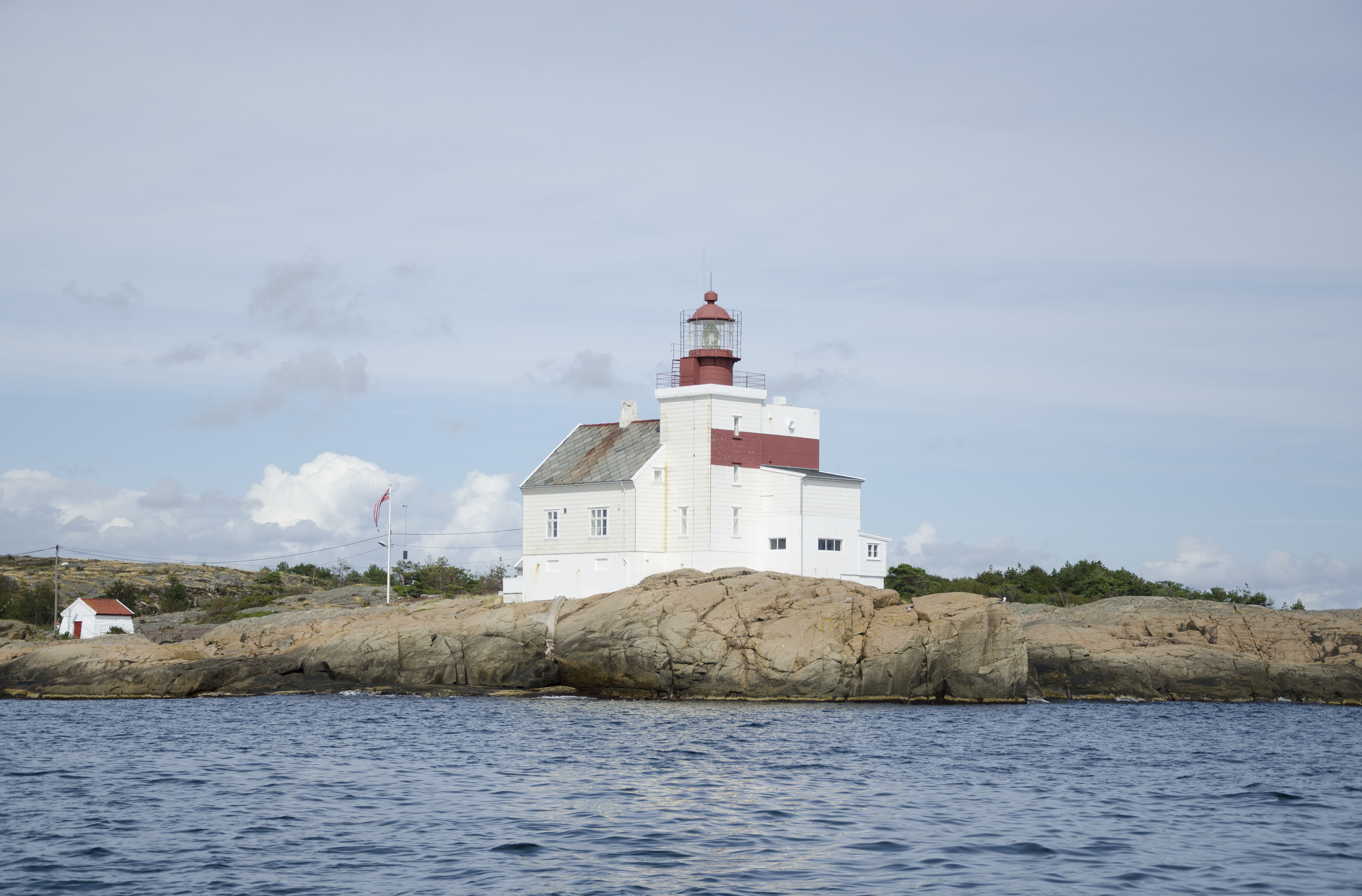 Lyngør lighthouse in august 2017.